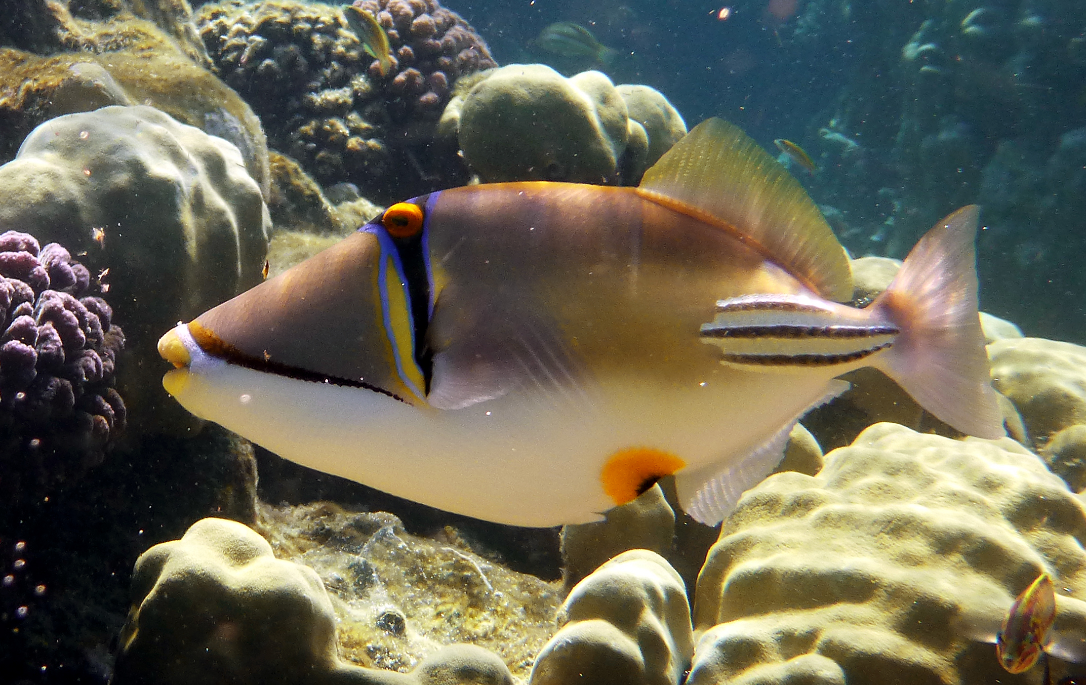 Picasso triggerfish and Arabian picassofish in Soma Bay, Hurgarda